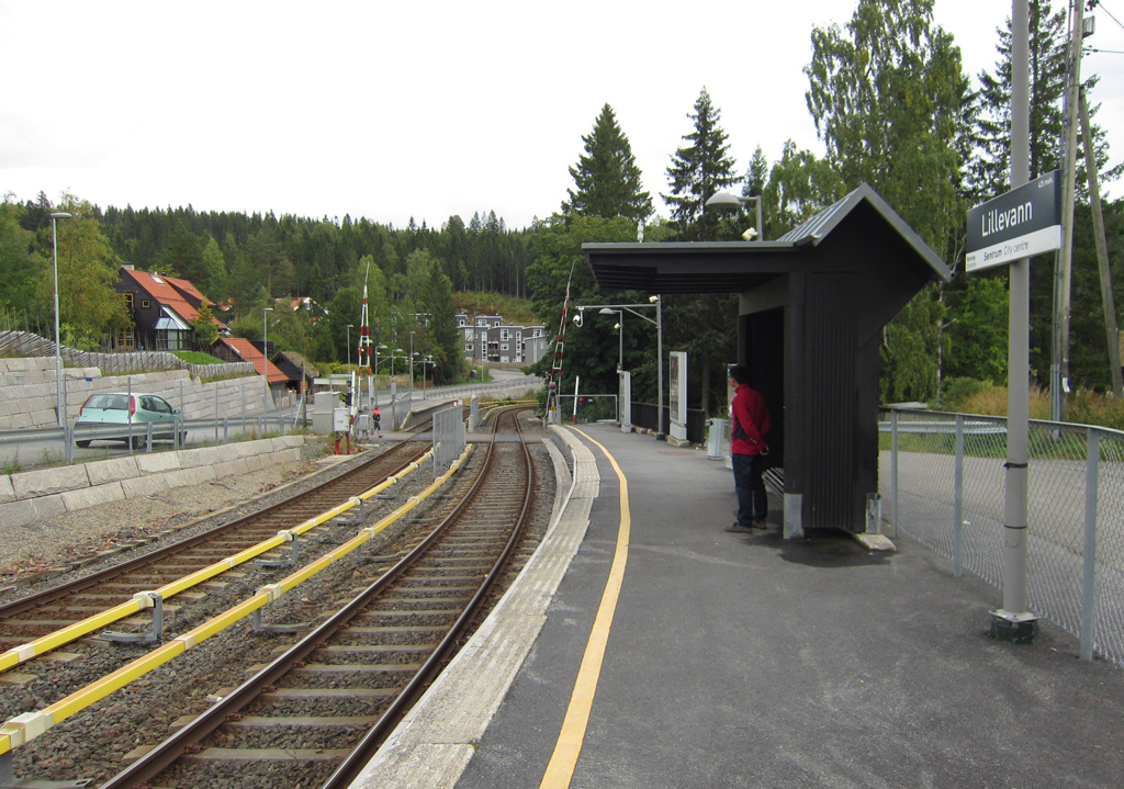 Lillevann Metrostation seen from track 2, Faced towards Skogen.